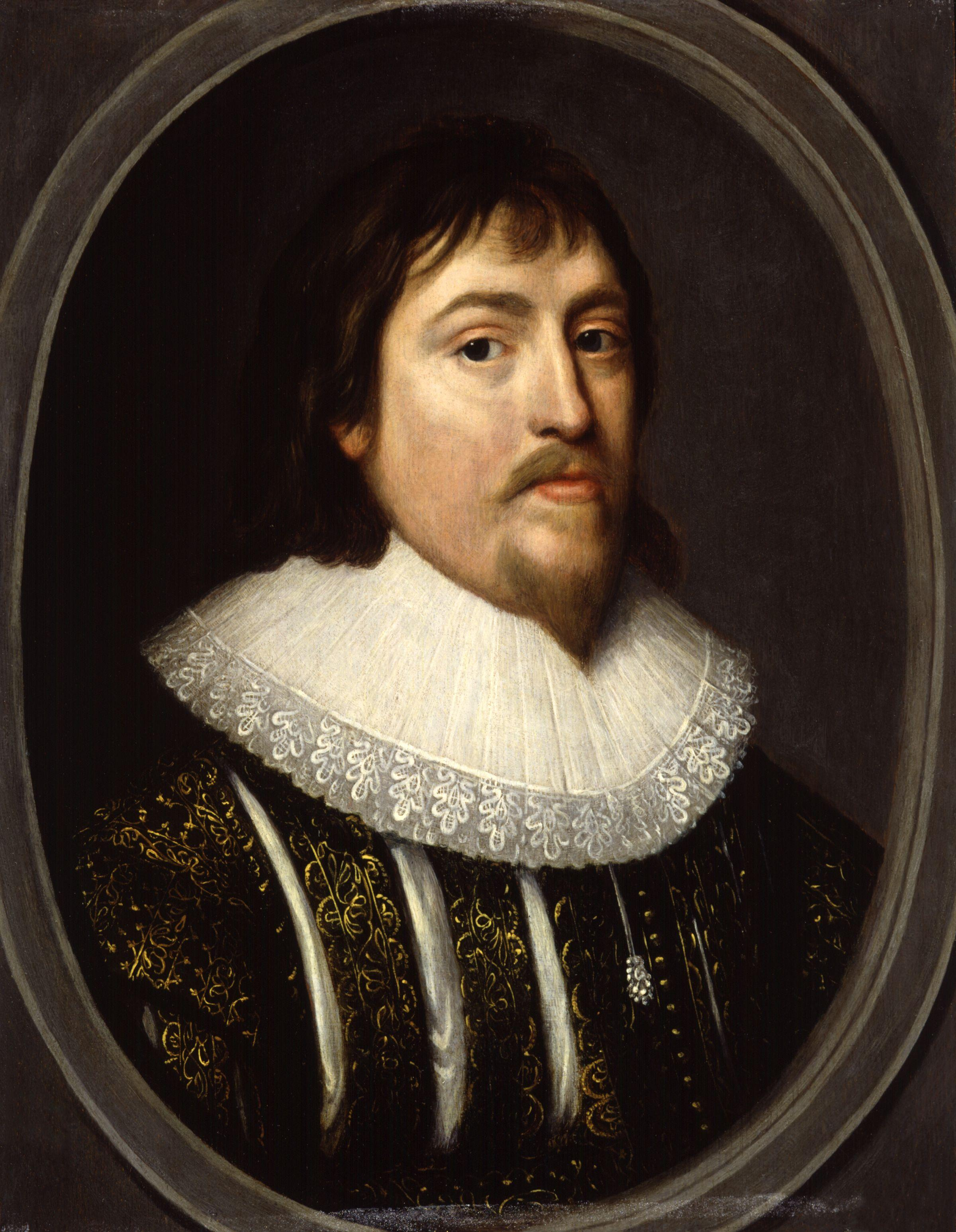 Henry de Vere, 18th Earl of Oxford, by unknown artist. All images in this batch are listed as "unknown author" by the NPG, who is diligent in researching authors, and was donated to the NPG before 1939 according to their website.